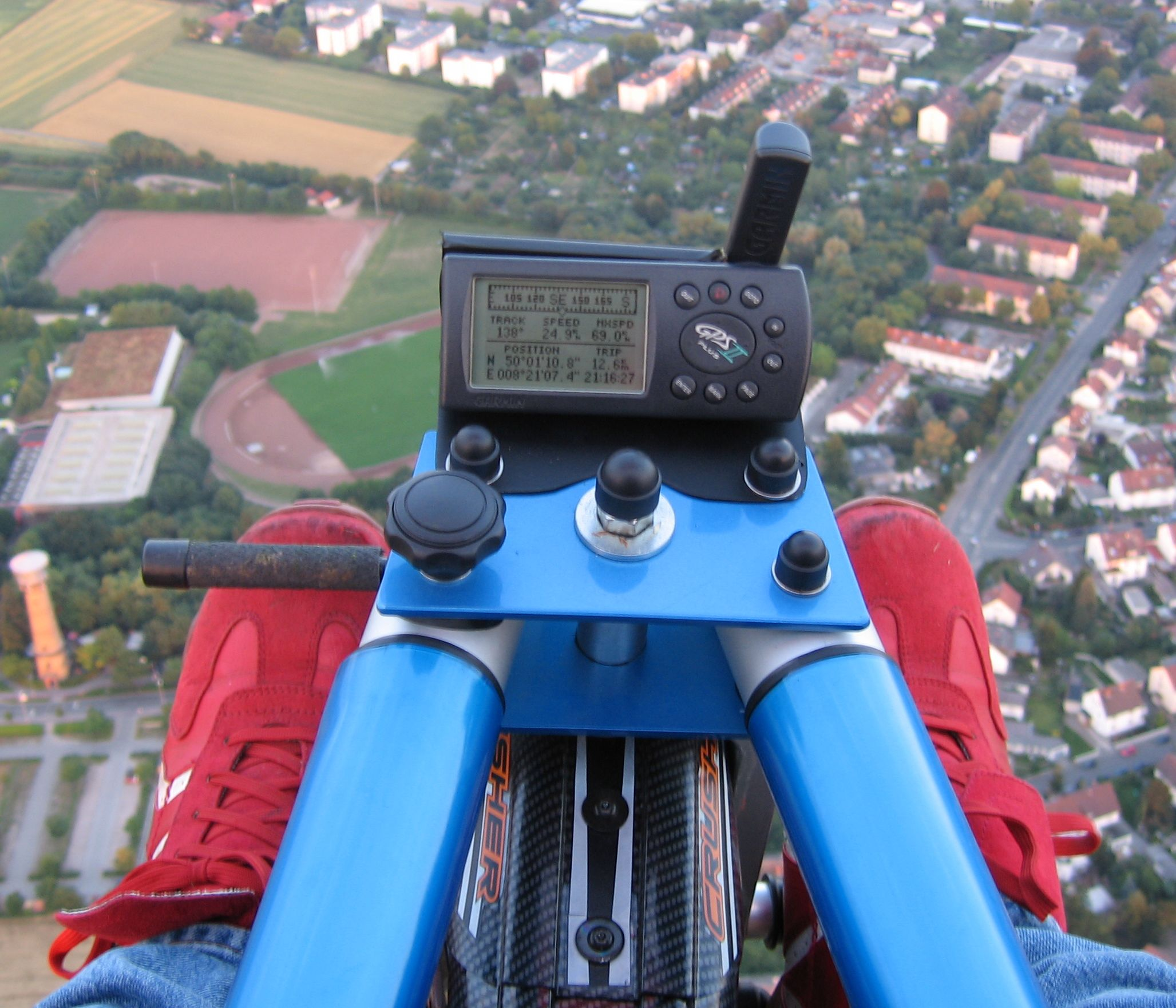 Garmin GPS IIplus in Aktion